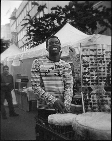 Mame Biram Diouf playing the congas late at night during Molde International Jazzfestival 2008.